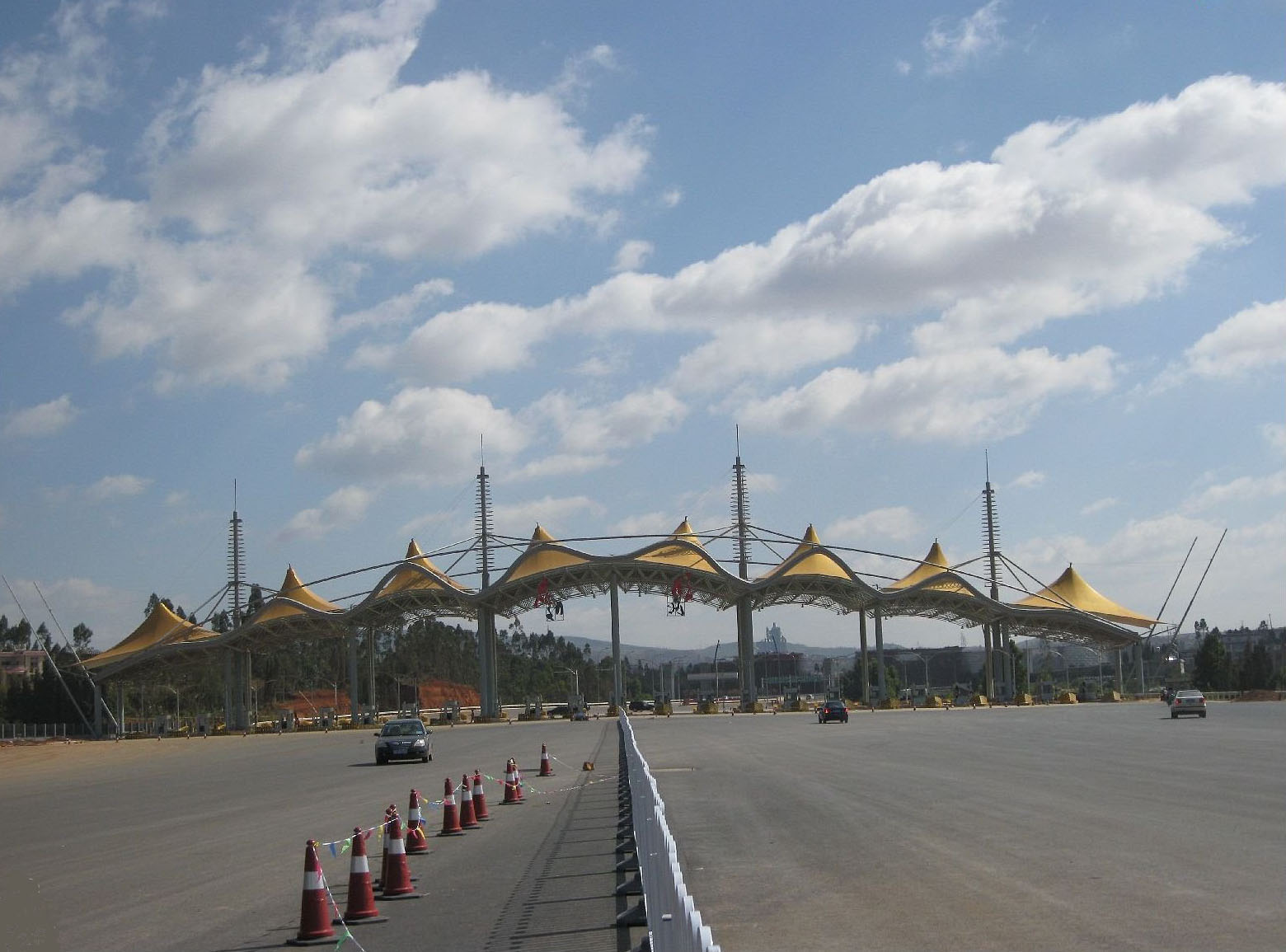 The toll station on the New Kunming Airport Expressway